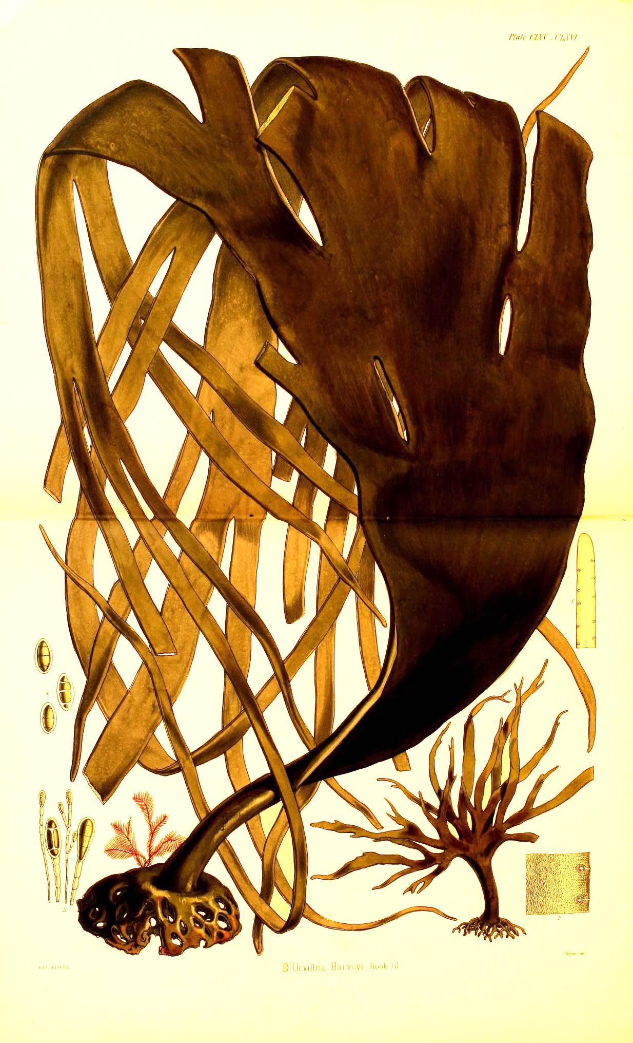 jpg of Plate CLXV.CLXVI of Hooker's Flora Antarctica. D'Urvilea Harveyi Hook. fil.